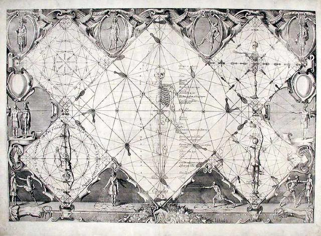 Gerard Thibault's "mysterious circle" from his 1630 rapier manual "Academie de l'Espee." The treatise is several hundred years old and is therefore public domain.